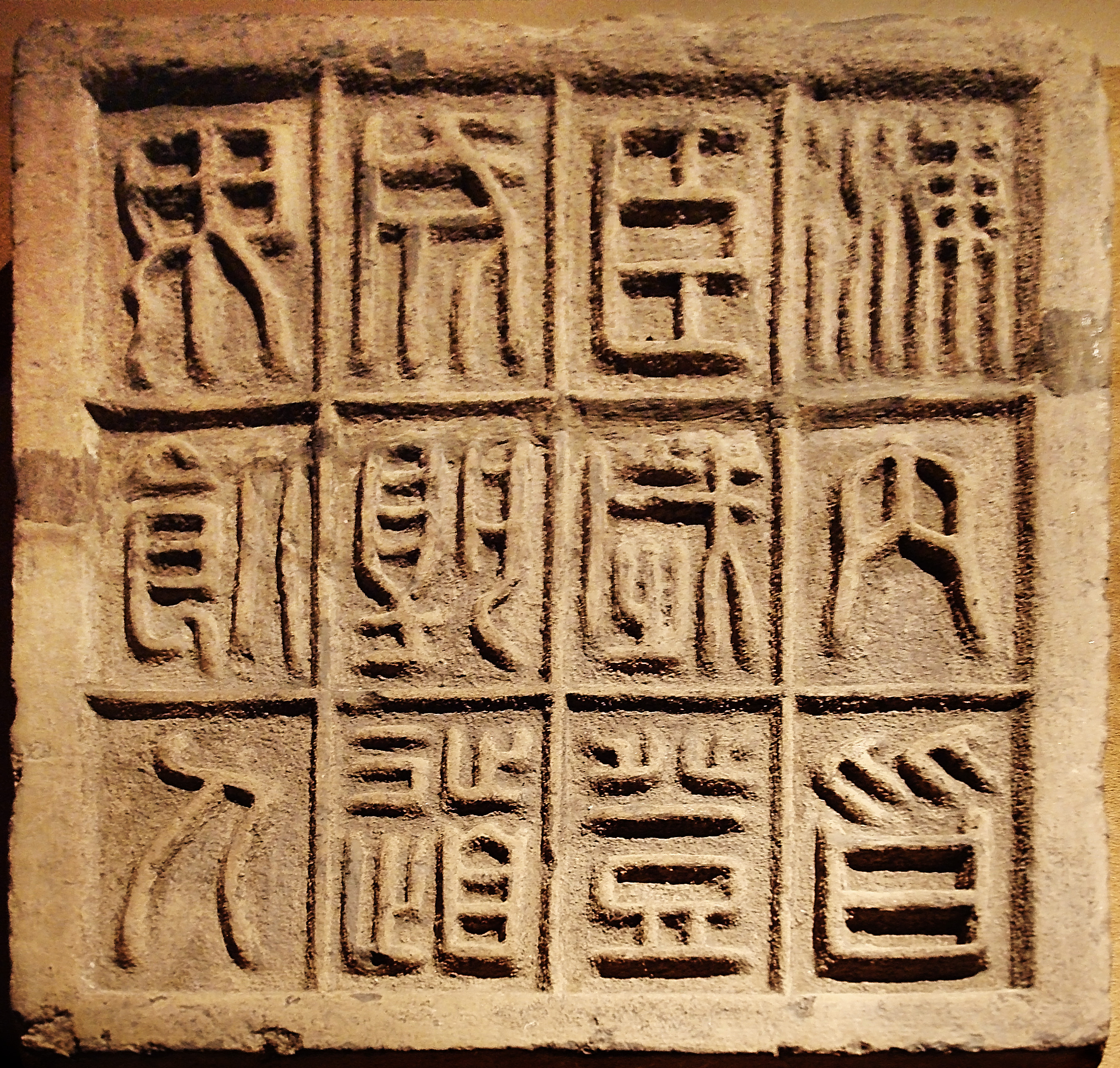 Stone slab with twelve Qin seal characters. Qin Dynasty (221 - 206 B.C.) The 12 characters on this slab of floor brick affirm that it is an auspicious moment for the First Emperor to ascend the throne, as the country is united and no men will be dying along the road. Small seal scripts were standardized by the First Emperor of China after he gained control of the country, and evolved from the larger seal scripts of previous dynasties. The text on it is "海内皆臣，歲登成熟，道毋飢人".